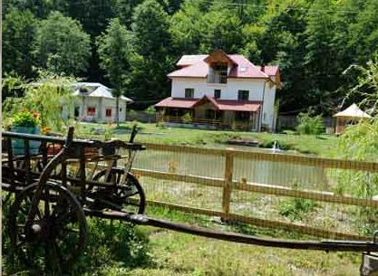 Pastravaria Bratioara